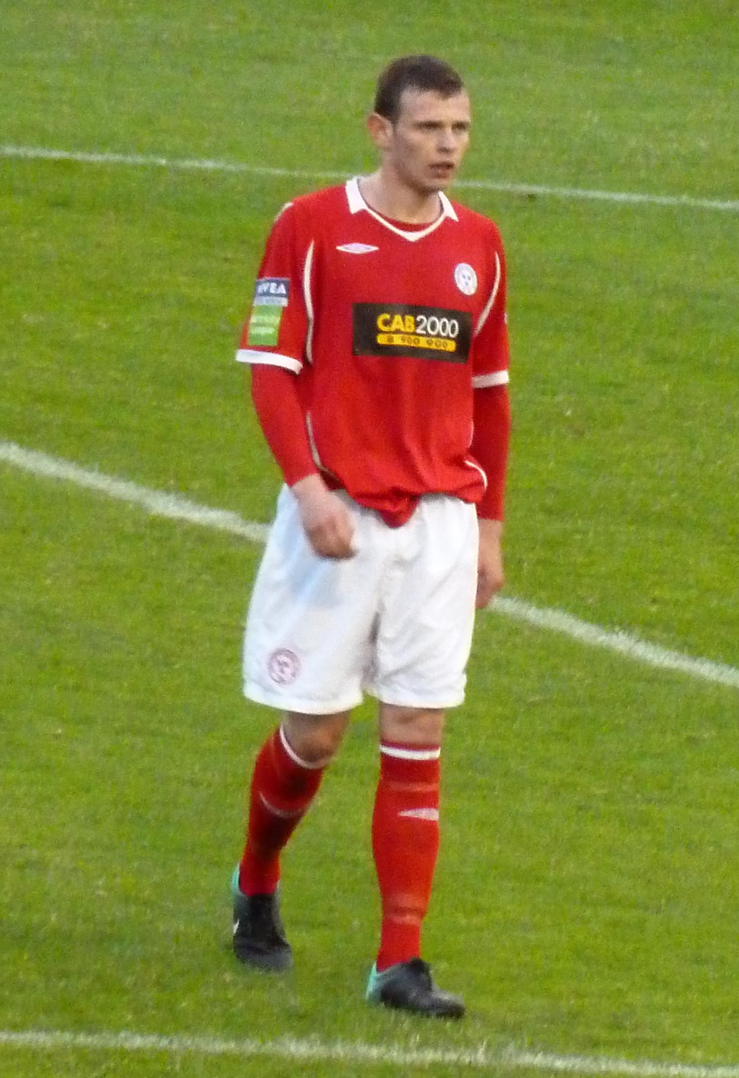 Andy Boyle